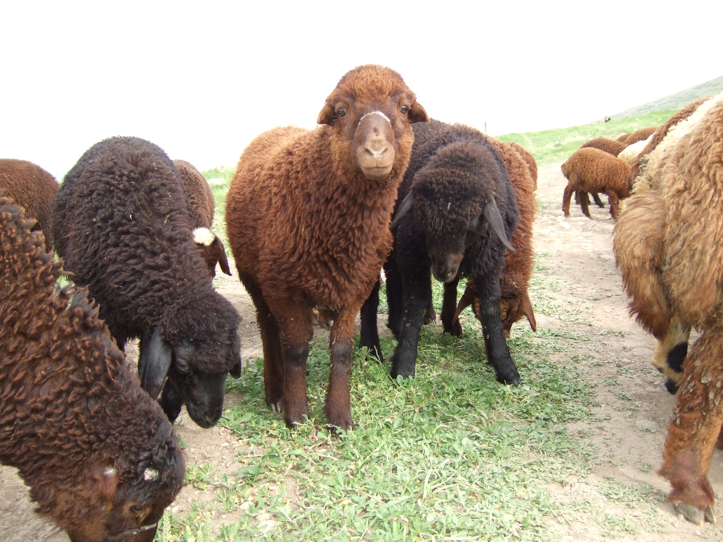 Little sheep looking up while grazing at Ara Ler